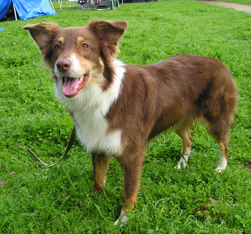 Red tricolor aussie